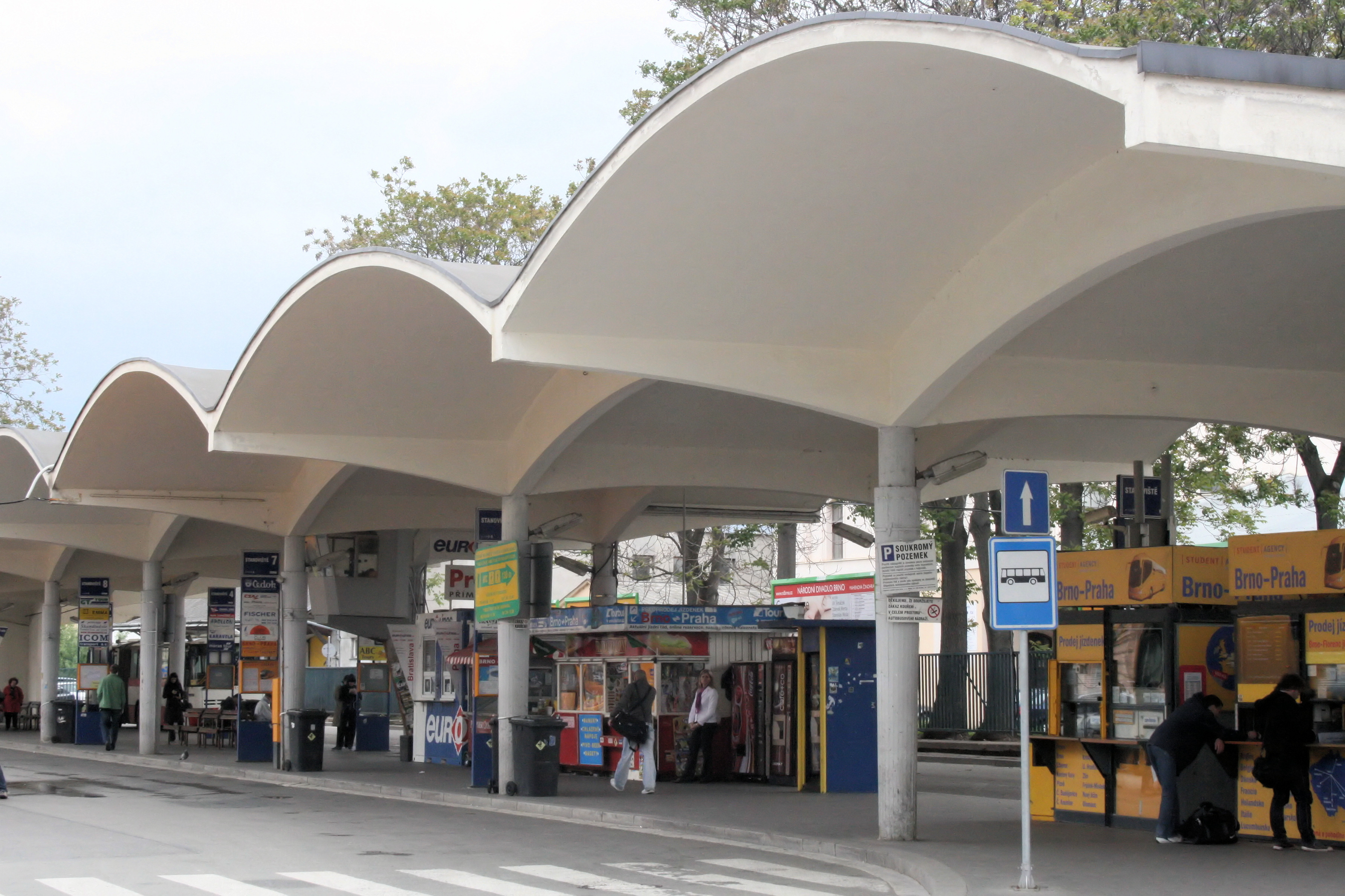 Bus station Grand in Brno, Czech Republic.